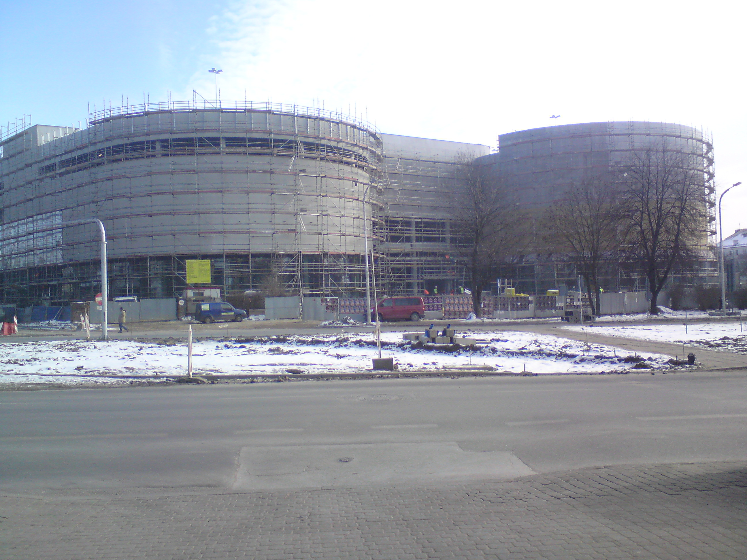 Korona Kielce (shopping mall)